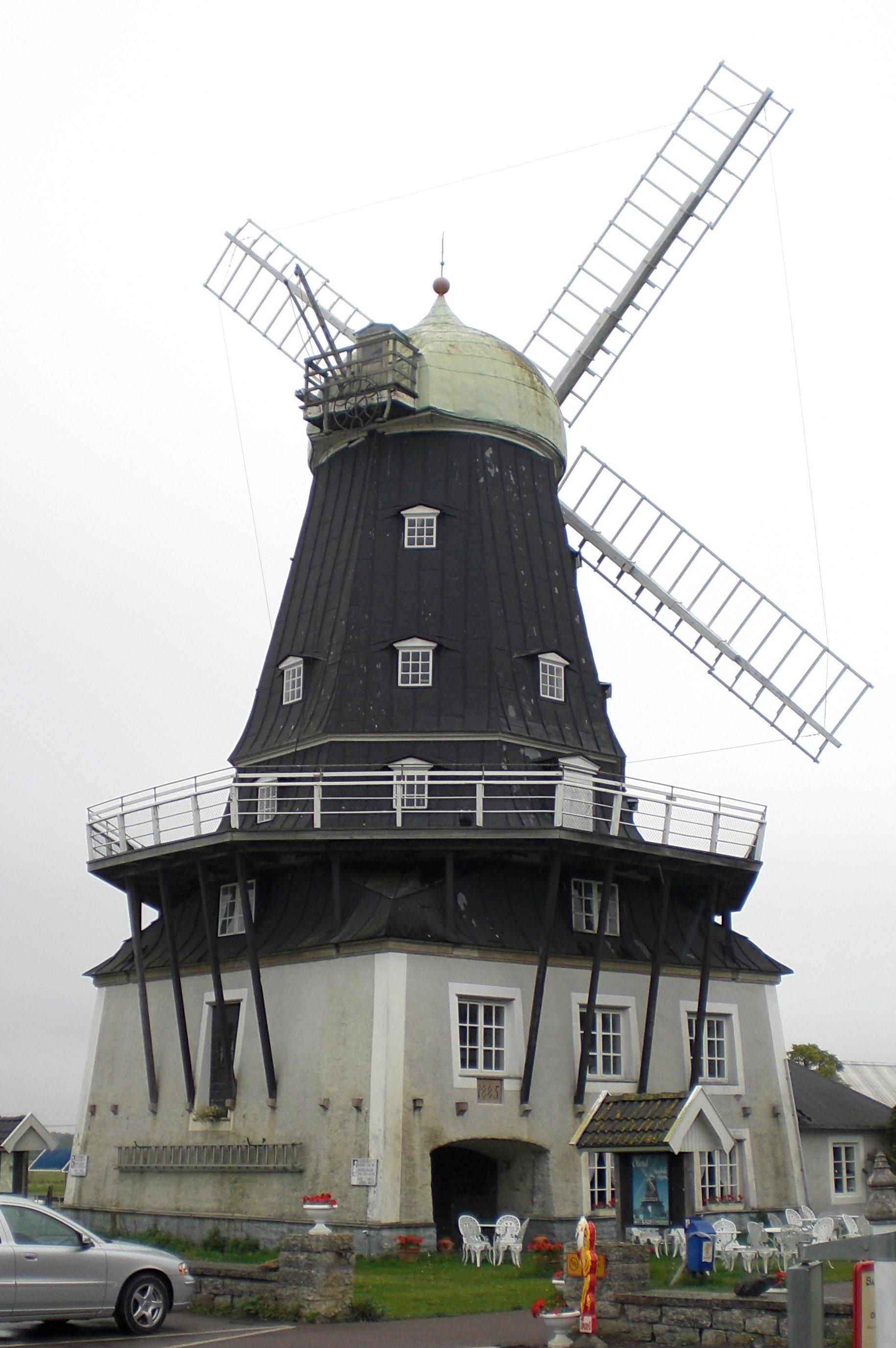 Sandviks Kvarn, Öland